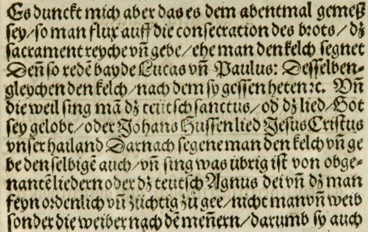 Martin Luther about eucharistic consecration and communion (Deutsche Messe 1526)